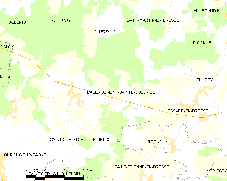 Map of French municipality